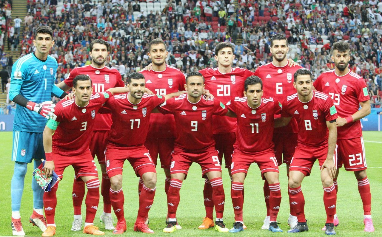 Iran and Spain match at the FIFA World Cup 2018